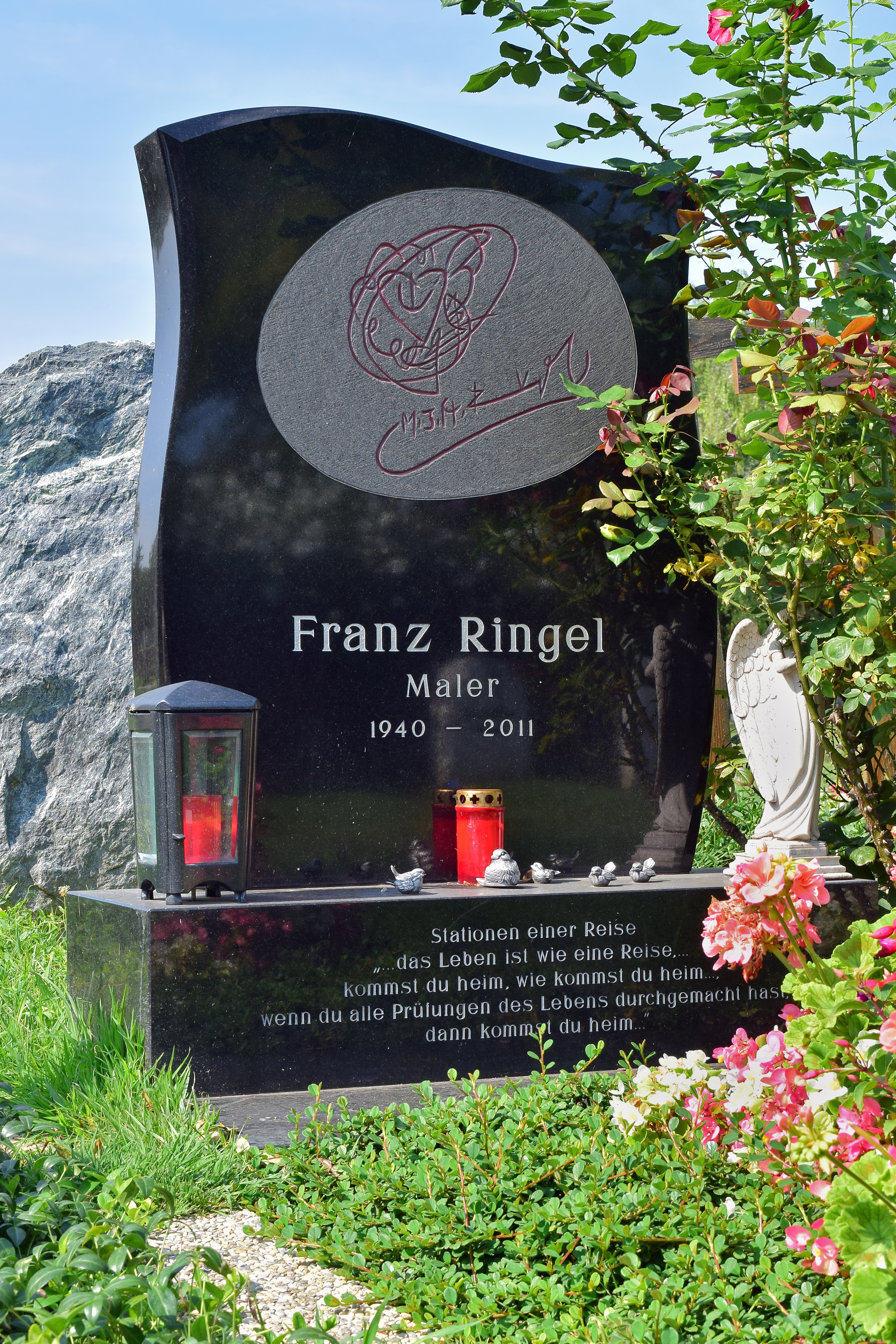 Grave of honor of the Austrian painter Franz Ringel at the Wiener Zentralfriedhof